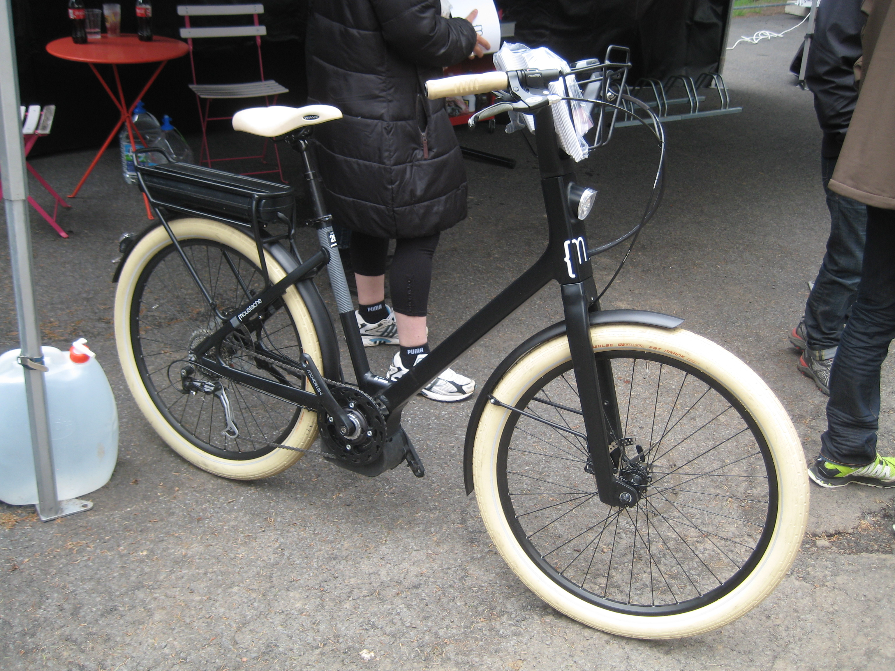 urban electric bicycle Moustache Lundi 26, at the vélo Vert festival, 2012